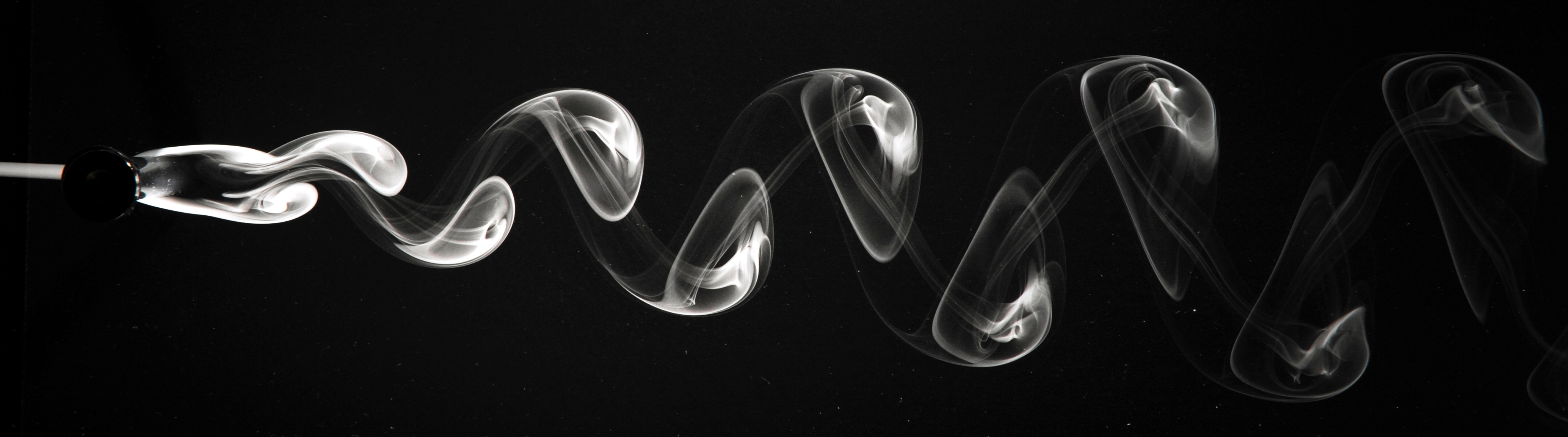 Visualisation of the Von Kármán vortex sheet behind a circlular cylinder in air flow. The flow is made visible by means of the release of oil vapour near the cylinder.